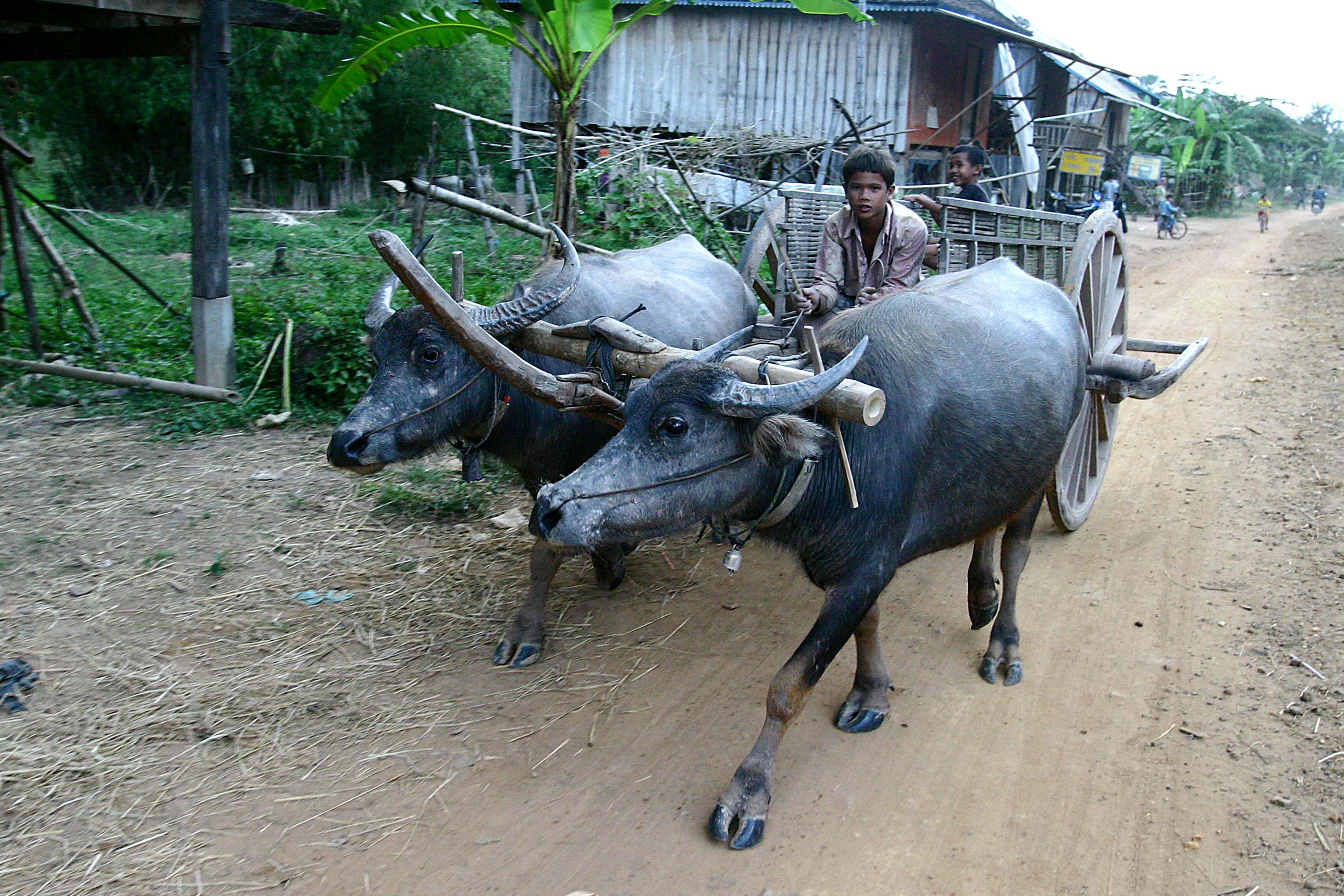 A local Cambodian commutes through the village of Stung Trung, Cambodia, November 26th, 2007.